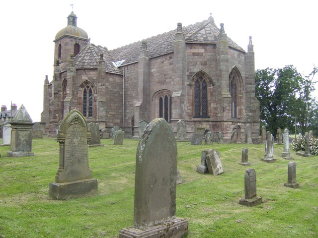 St. Mary's kirk, Ladykirk Ladykirk Parish Church is the oldest church which remains intact in the (old) county of Berwickshire. The church was erected in 1496 or 1497. It is said that Ladykirk Parish Church was erected on the orders of James IV after an accident he had in the area. James IV’s horse stumbled as it was crossing the River Tweed at the ford beside Norham Castle and through him into the river. James IV was rescued from the River, James IV believed his rescue was thanks to the divine intervention of the Virgin Mary. After his rescue James IV vowed to build a church in gratitude to her. His orders were that a church was to be built that a ‘flood will not drown’ and a ‘fire will not burn’. Ladykirk Parish Church was built some 40 metres above the Tweed so as to protect it from the River bursting its banks and flooding the area. The church was made completely of stone including the roof and the pews inside so as it could not burn. The Church was dedicated to Our Lady of the Steill. This name was only used until around 1550 when the Church became known as Our Lady Kirk. The church was erected in 1496 or 1497.